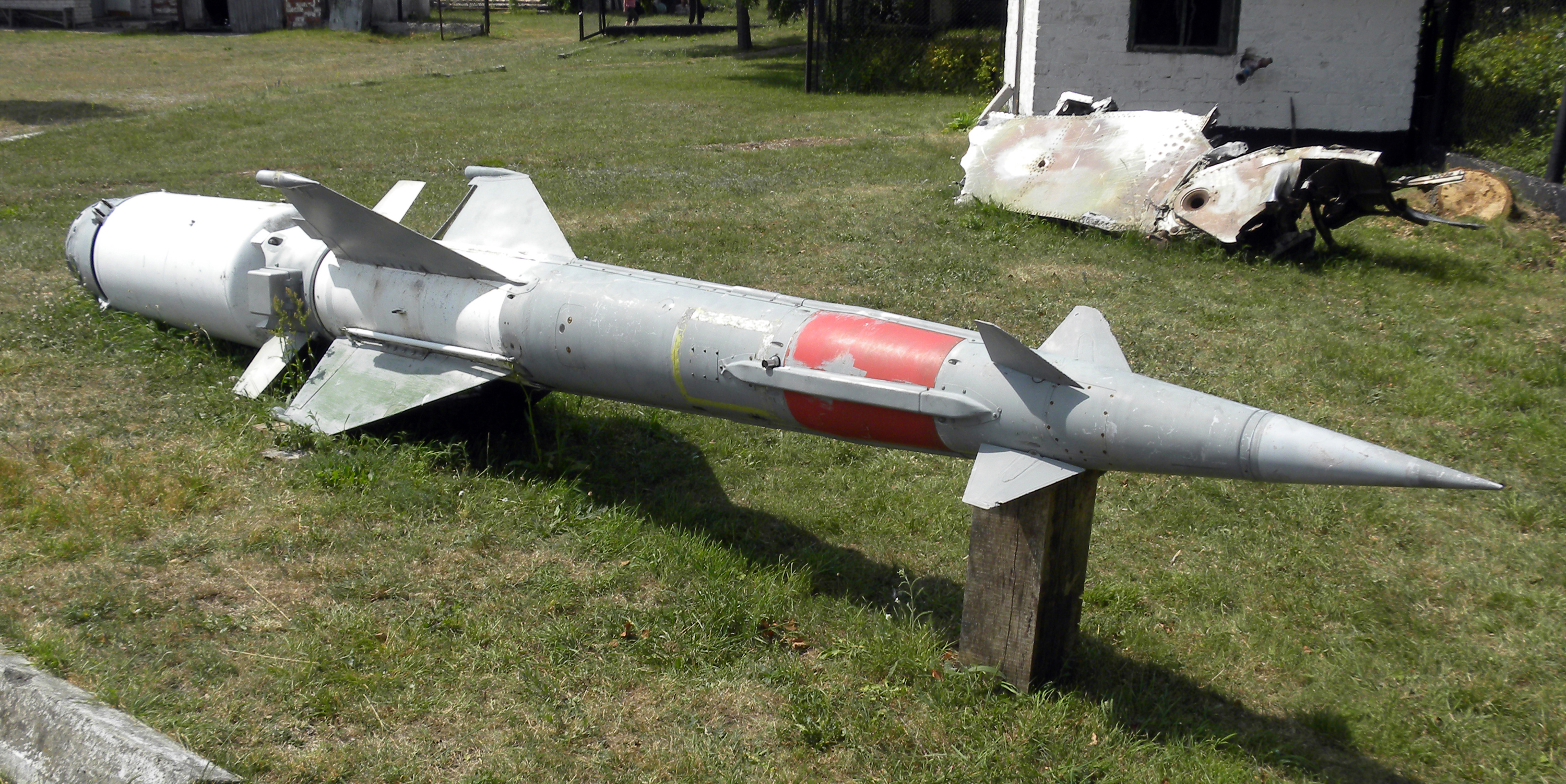 S-125 Neva/Pechora SA missile; Saare, Saaremaa, Estonia.